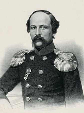 Sergej Semenovič Urusov (1827-1897), russian General and chess player.